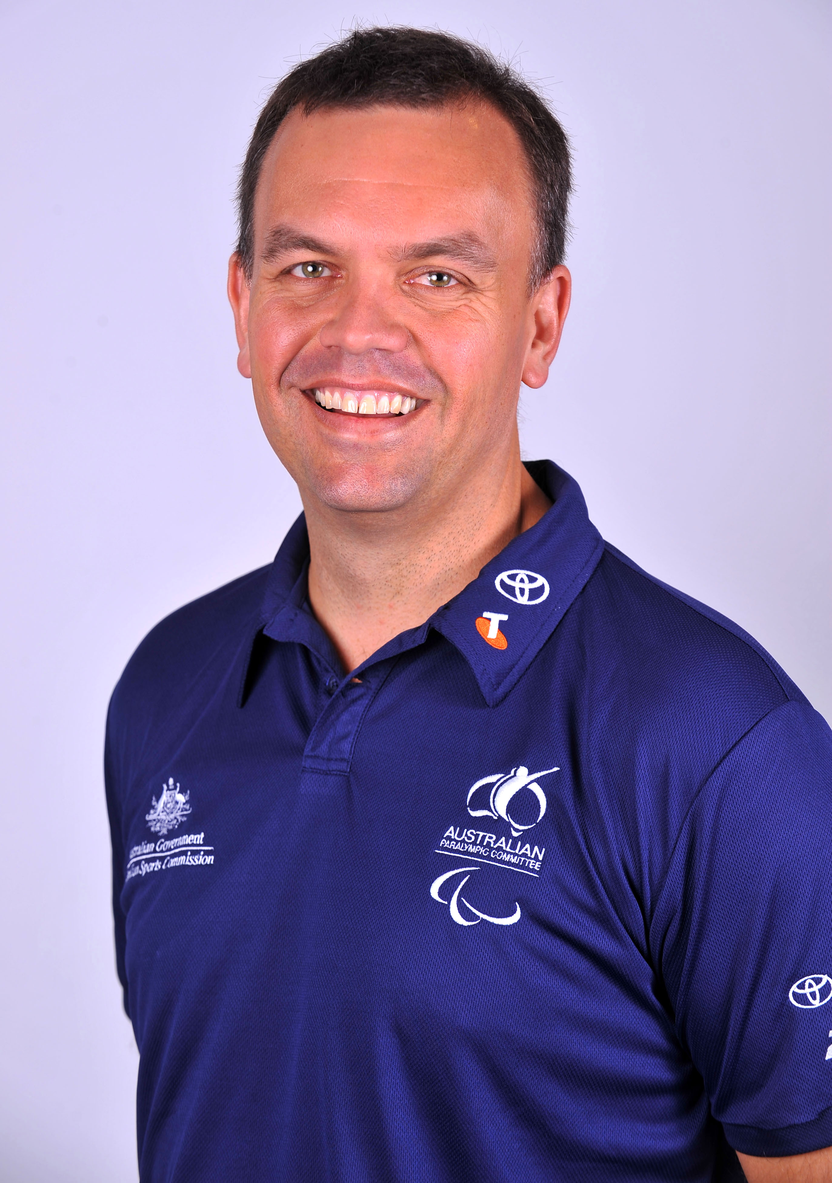 Portrait of the Australian Paralympic Committee's Chief Executive, Jason_Hellwig, 2012 Australian Paralympic Team Chef de Mission